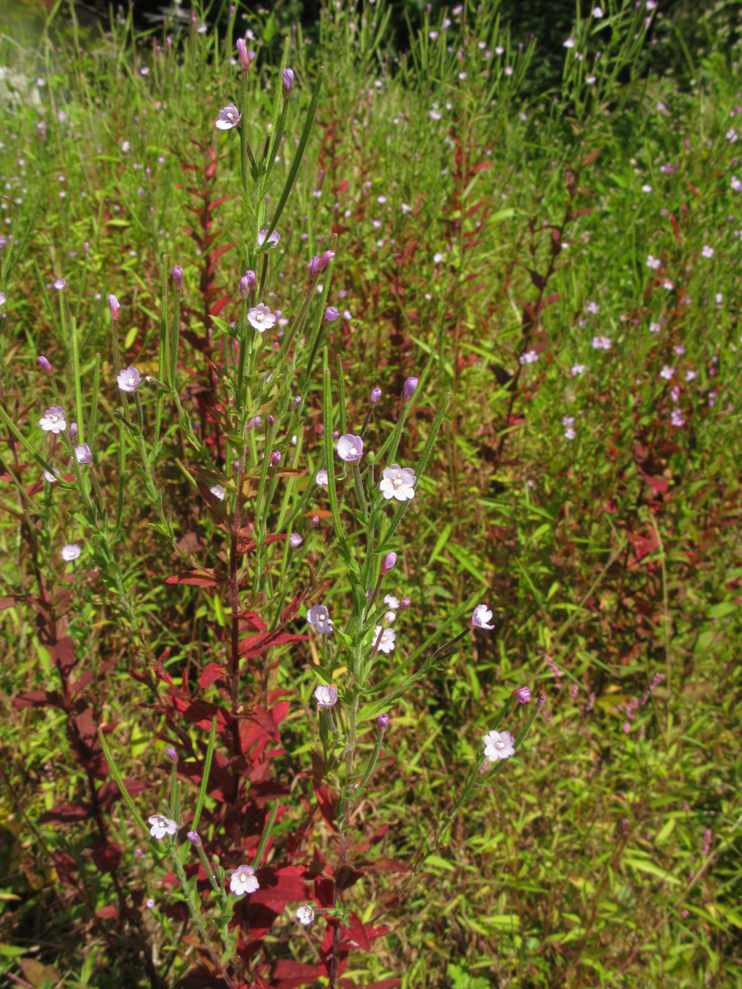 Epilobium pyrricholophum, Aizu area, Fukushima pref., Japan